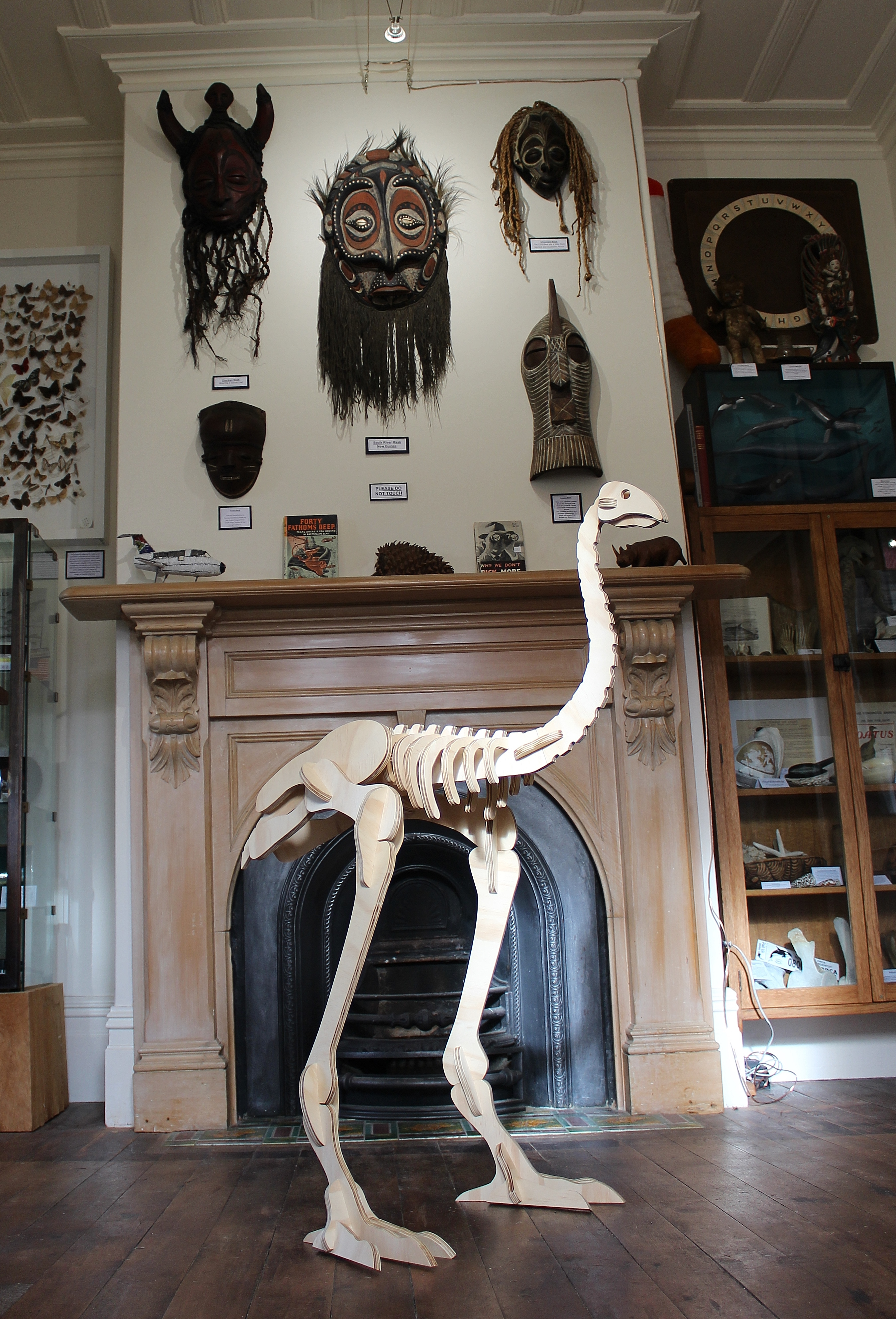 Model Moa Skeleton by Dave Herbert at the Dunedin Museum of Natural Mystery (2019)